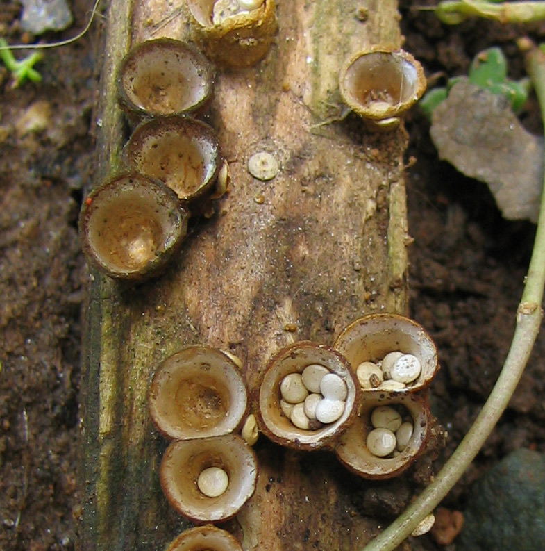 Bird's Nest Fungus, specifically Crucibulum laeve, on a piece of wood.